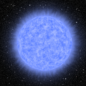 Artistic image of star Naos (Zeta Puppis) (Original text: "Artistic depiction of the star Zeta Puppis (Naos). At this distance in actuality, the star would be too bright to look at with the naked eye.")